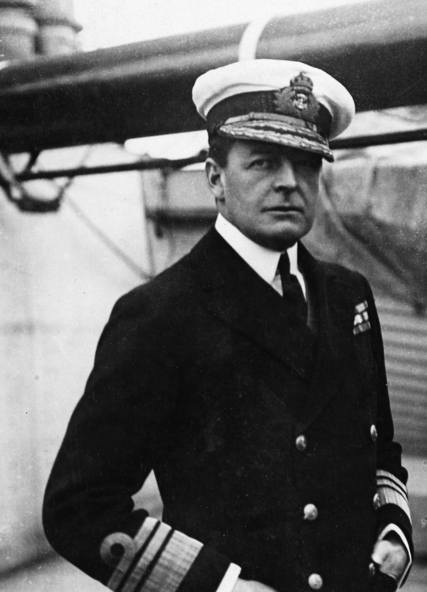 Illustration p17.